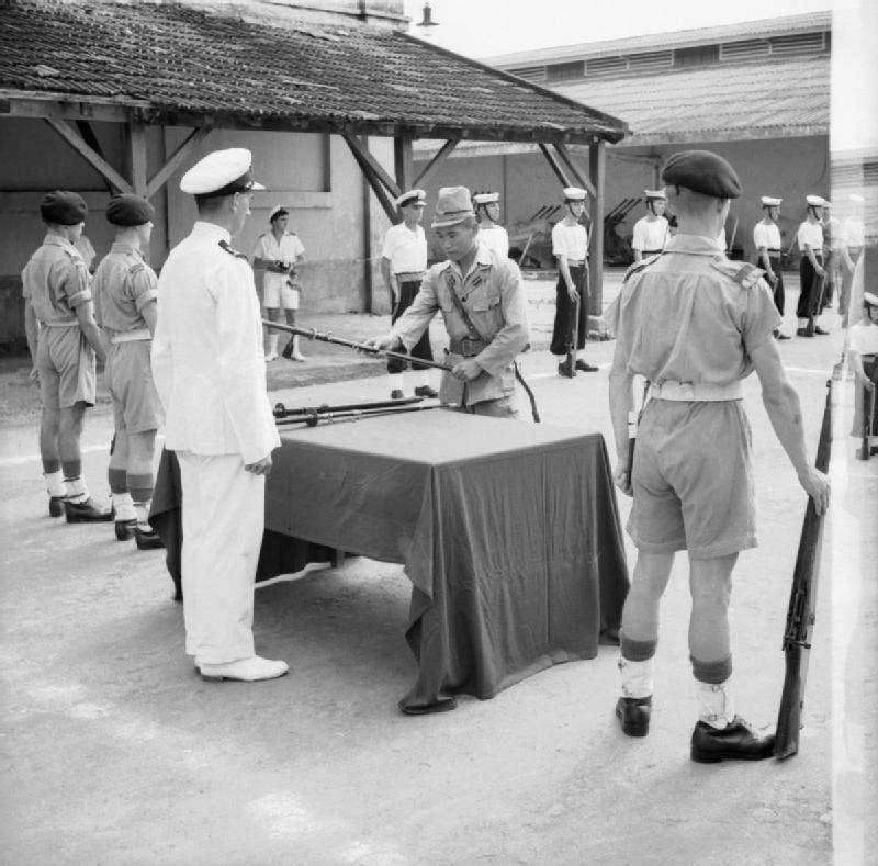 A Japanese naval warrant officer surrenders his sword to Sub Lieutenant Anthony Martin in a ceremony in Saigon.